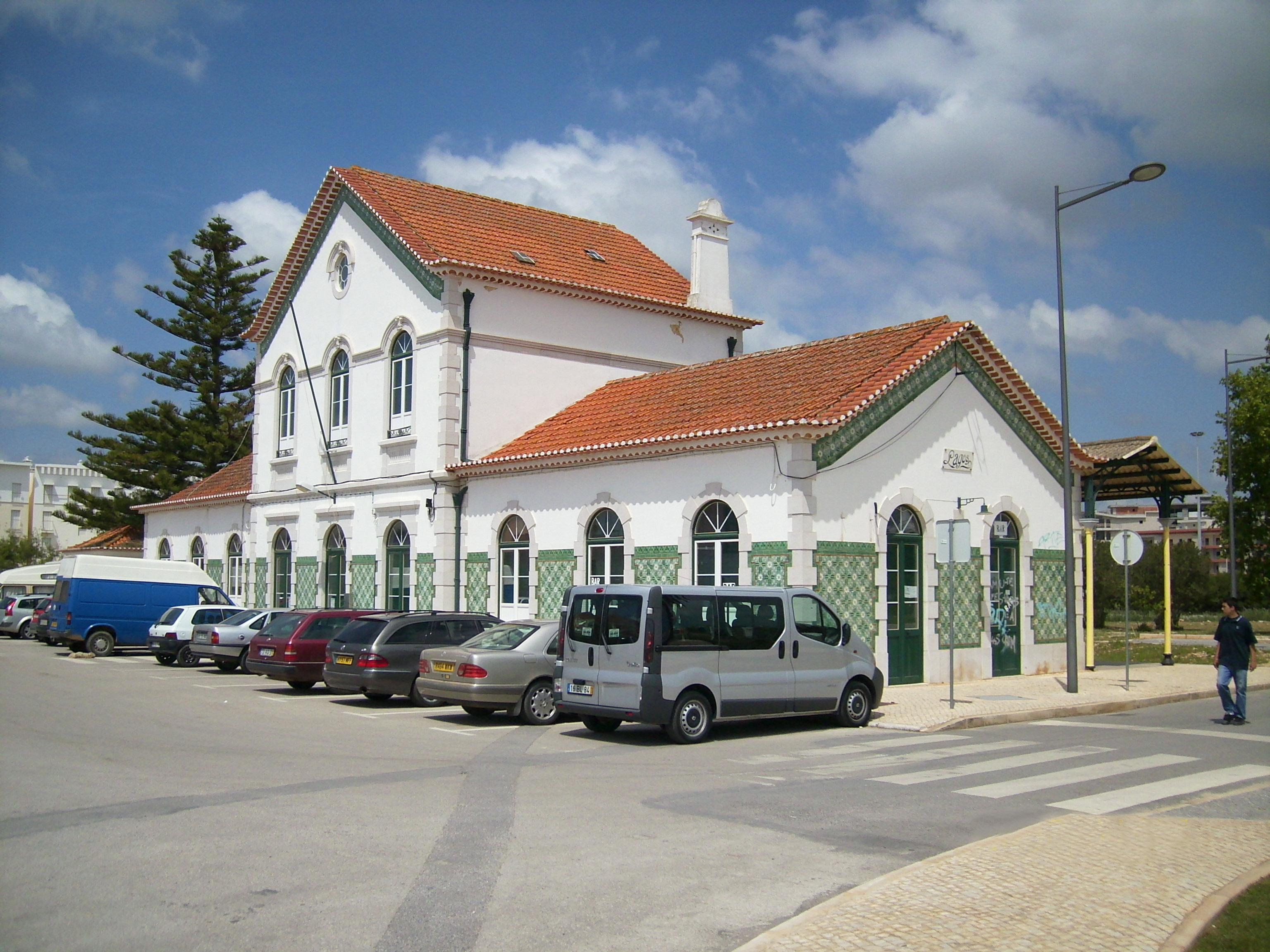 Old, unused train station of Lagos, Portugal